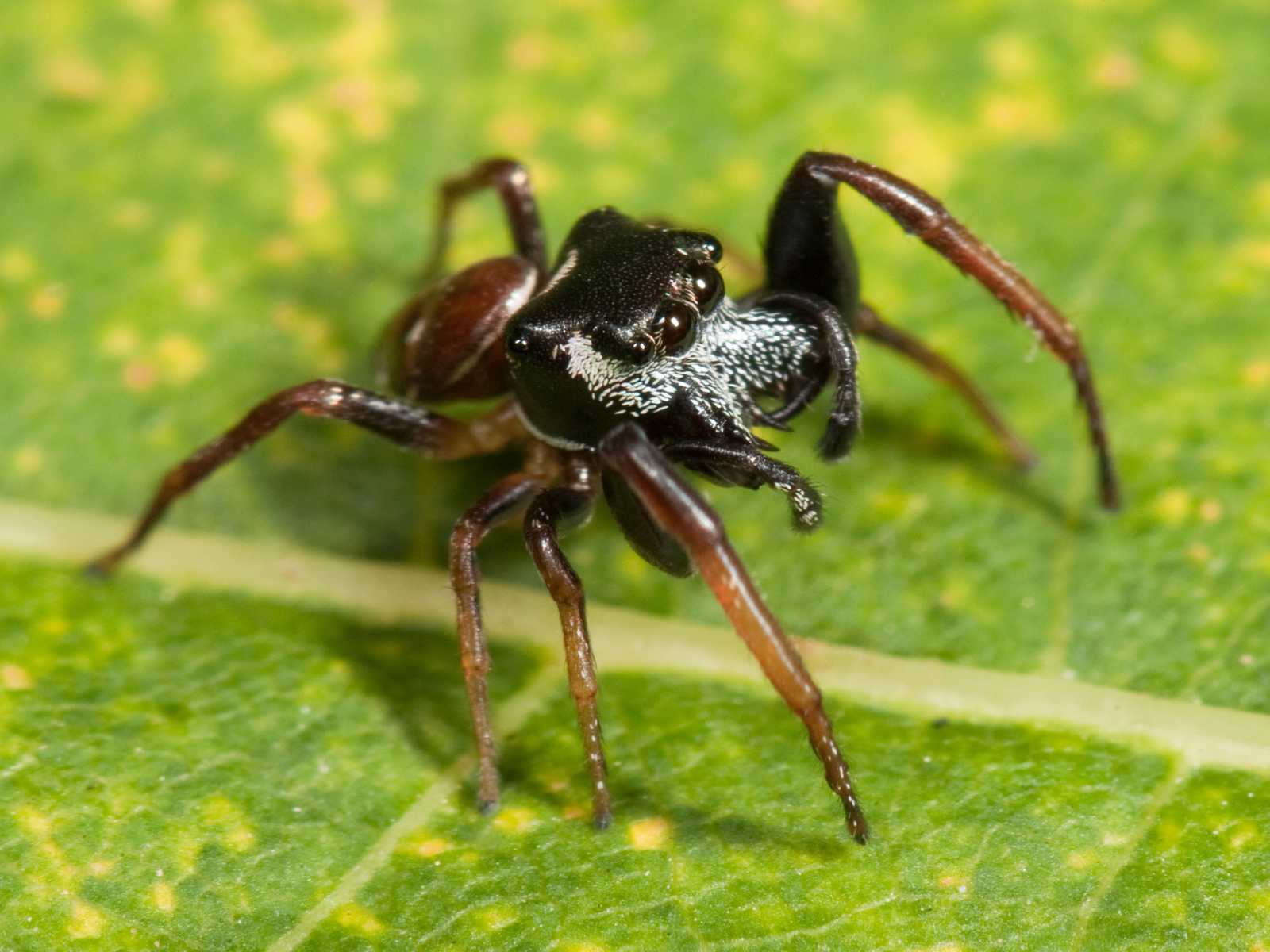 Adult male Zygoballus sexpunctatus jumping spider found at Shelby Park in Nashville, Tennessee. Body length: 3.5 mm.